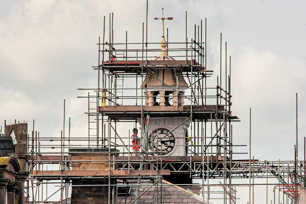 "The famous old clock has been out of commission after work on the town hall roof revealed dry rot and other issues. Clock custodians High Peak Borough Council covered it and the roof with a network of scaffolding and a safety screen while specialist contractors got down to work."